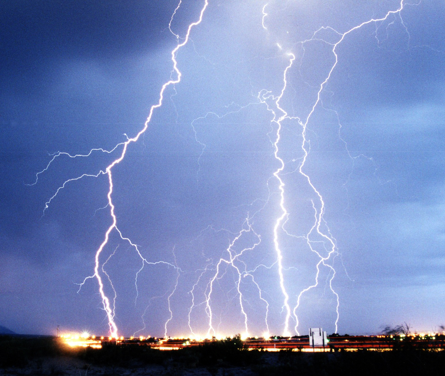 Lightning over Las Cruces, New Mexico